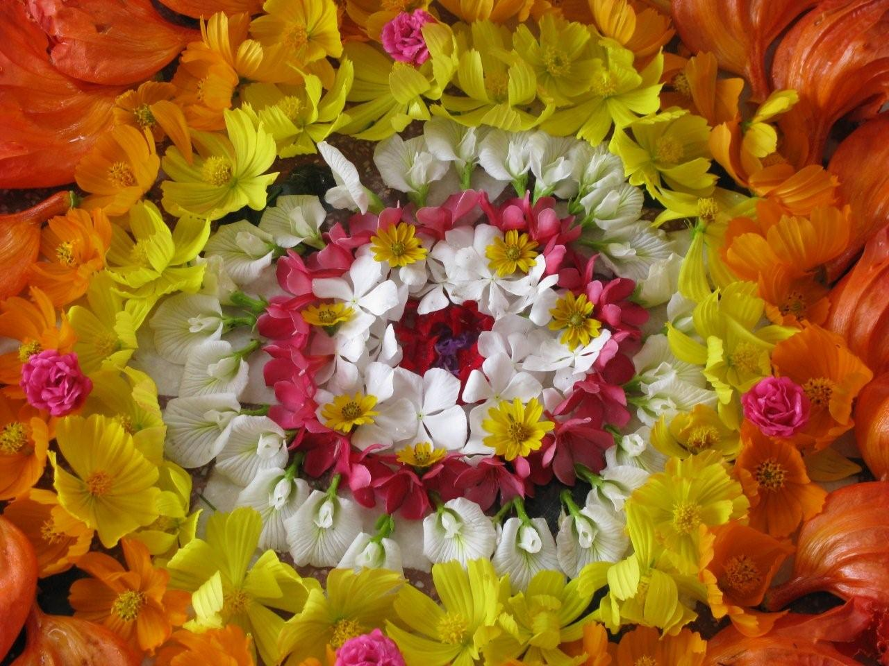 ONAM FLOWER ARRANGEMENT :FRESH NATURAL FLOWERS ARE ARRANGED IN FRONT OF THE HOUSES ON THE OCCASION OF "ONAM" A MAJOR CELEBRATION IN KERALA, INDIA.